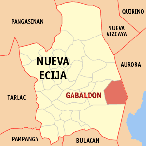 Map of Nueva Ecija showing the location of Gabaldon